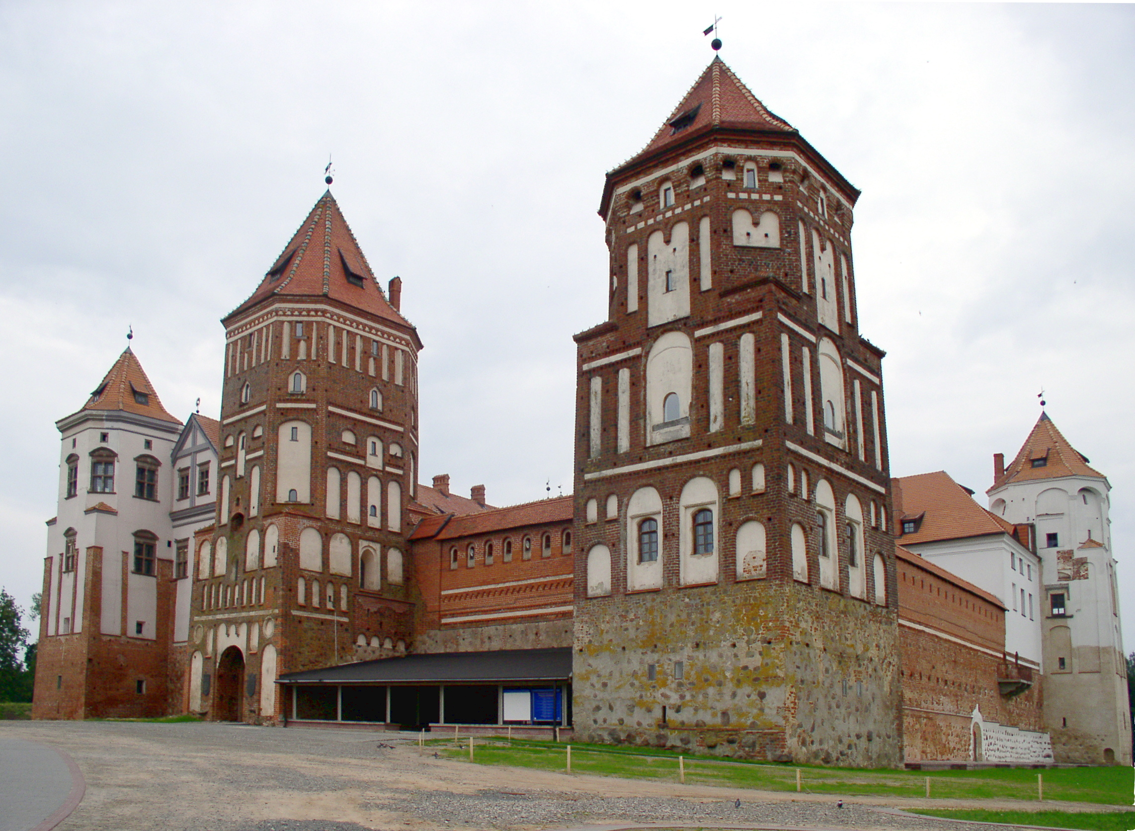 Castle Mir, Belarus.